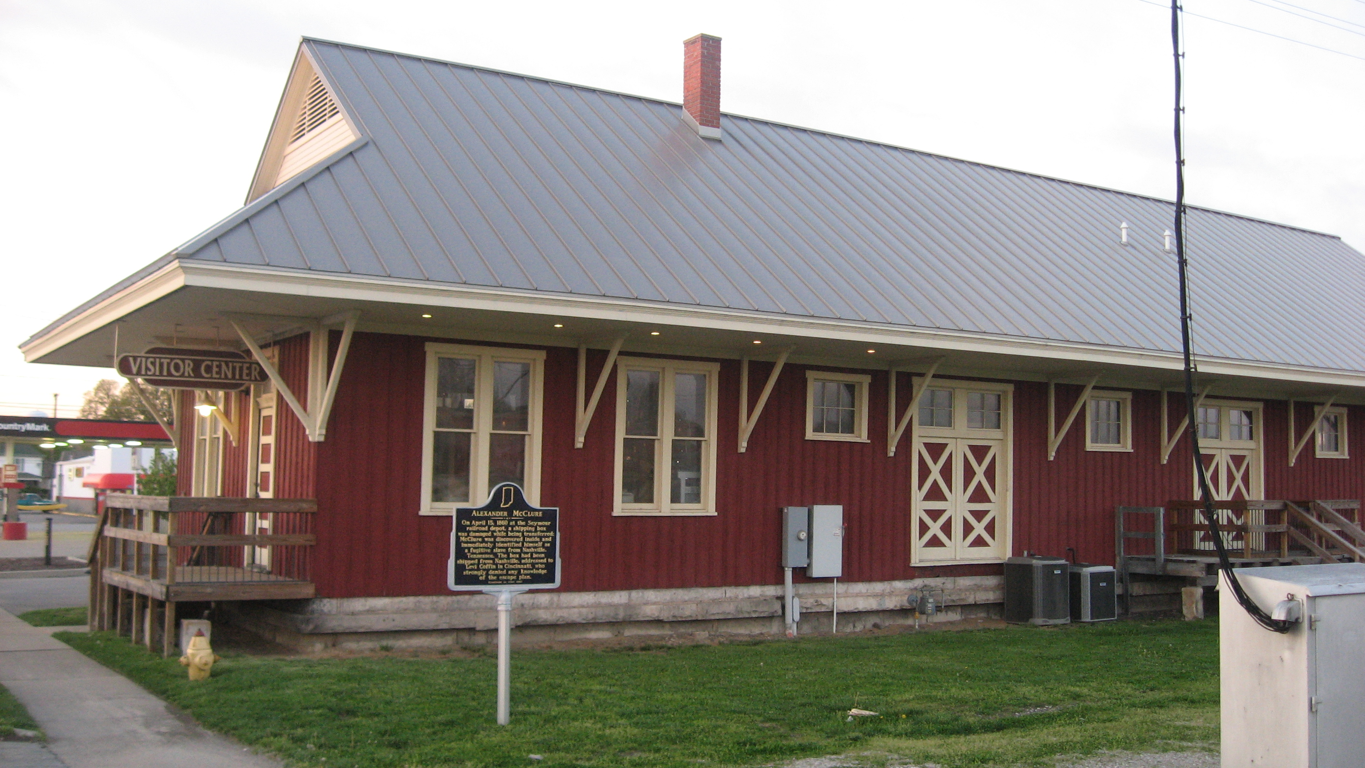 Closeup of the southern side of the Southern Indiana Railroad Freighthouse (now the Jackson County Visitors' Center), located at 105 N. Broadway (State Road 11) in Seymour, Indiana, United States. Built in 1901, it is listed on the National Register of Historic Places.